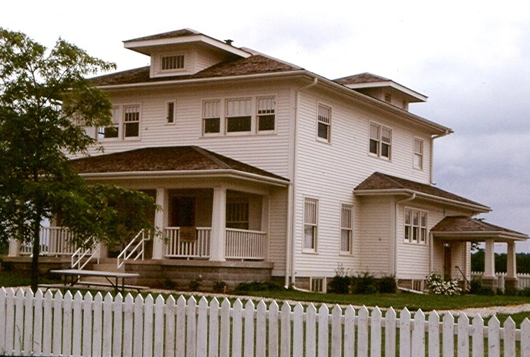 A photo of the modern reproduction of a Sears catalog house, Hillrose model, at the "Farm at Prophetstown" in Battle Ground, Indiana.